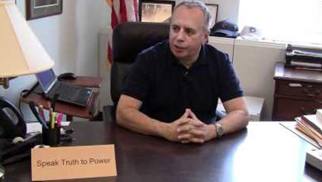 Kerry Gauthier Capitol Update